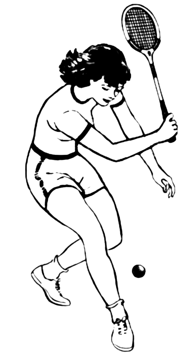 line art drawing